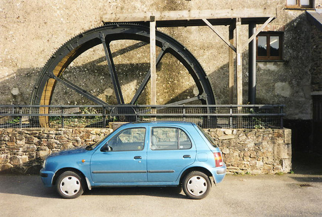 Okehampton: Museum of Dartmoor Life. The museum is believed to stand on the site of one of the town’s watermills. The waterwheel here was rescued from Coombe Park Farm, now under the Roadford Reservoir. It is a 16’ by 3’ overshot. According to staff at the museum its twin is the decayed wheel at The Highwayman Inn, Sourton. This reputedly came from the saw mill in Bridestowe village. The Nissan Micra gives a sense of scale.